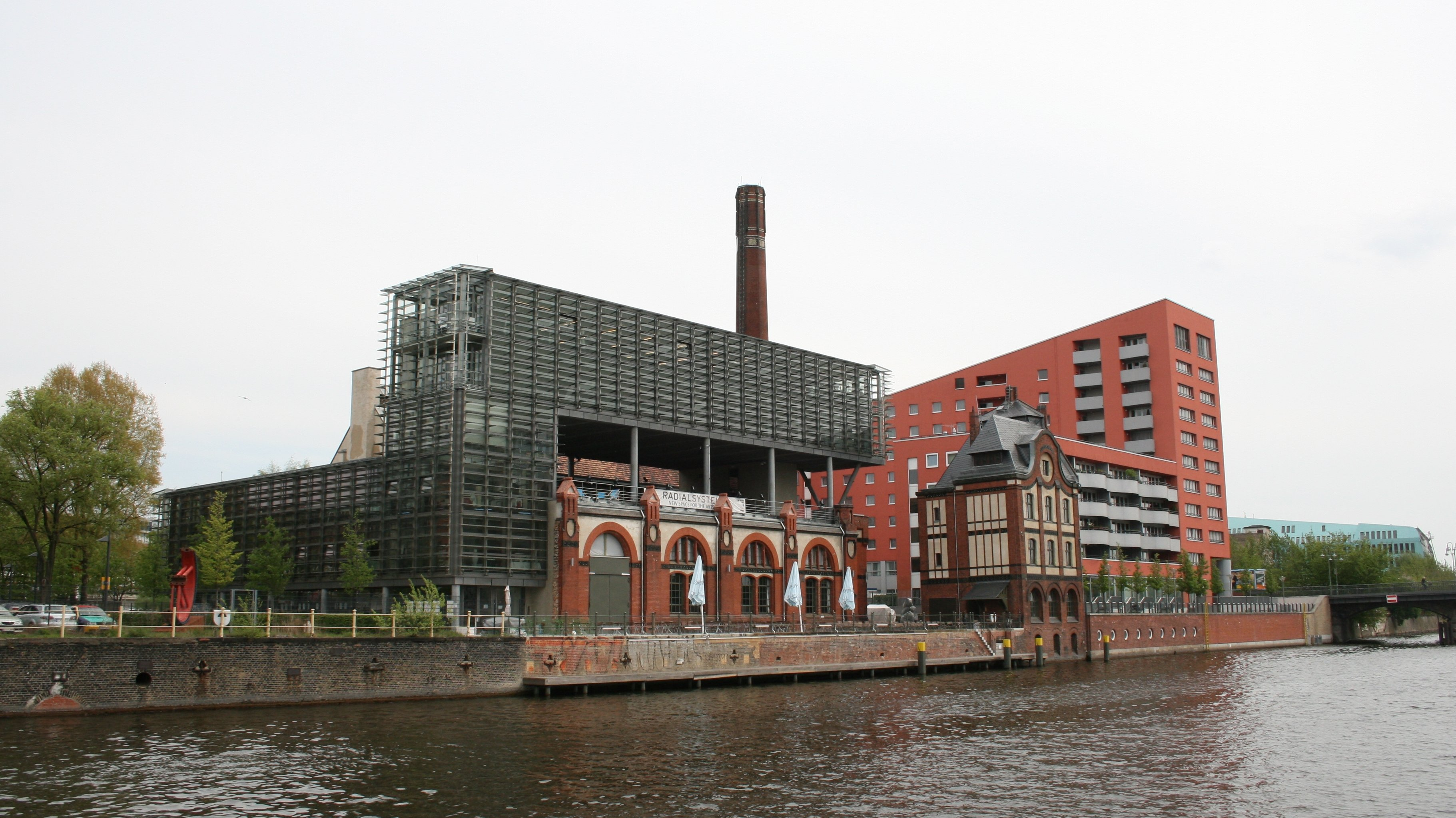 Germany, Berlin-Friedrichshain: "Radialsystem V", location with guest house and catering, former pump station at spree river waterside